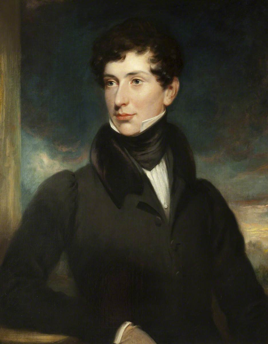 Sir William George Armstrong (1810-1900), later 1st Baron Armstrong of Cragside, then aged 21. Painted by James Ramsay. Held at the National Trust, Cragside.